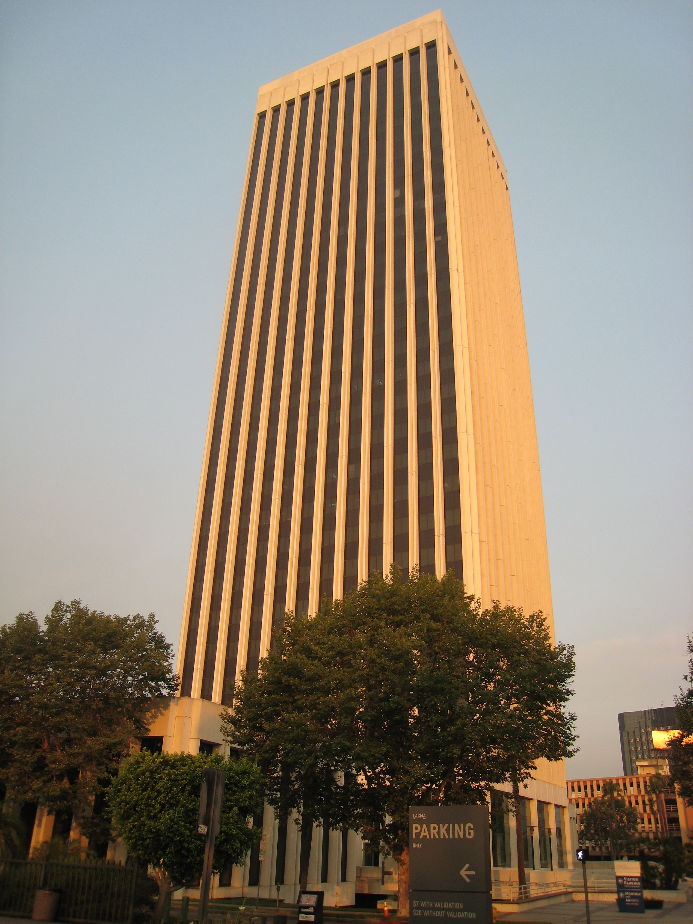 5900 Wilshire is a high rise on Wilshire Blvd in the heart of the Miracle Mile area (Los Angeles, CA), and was dubbed the Variety Building. It has the headquarters of Variety and Tokyopop